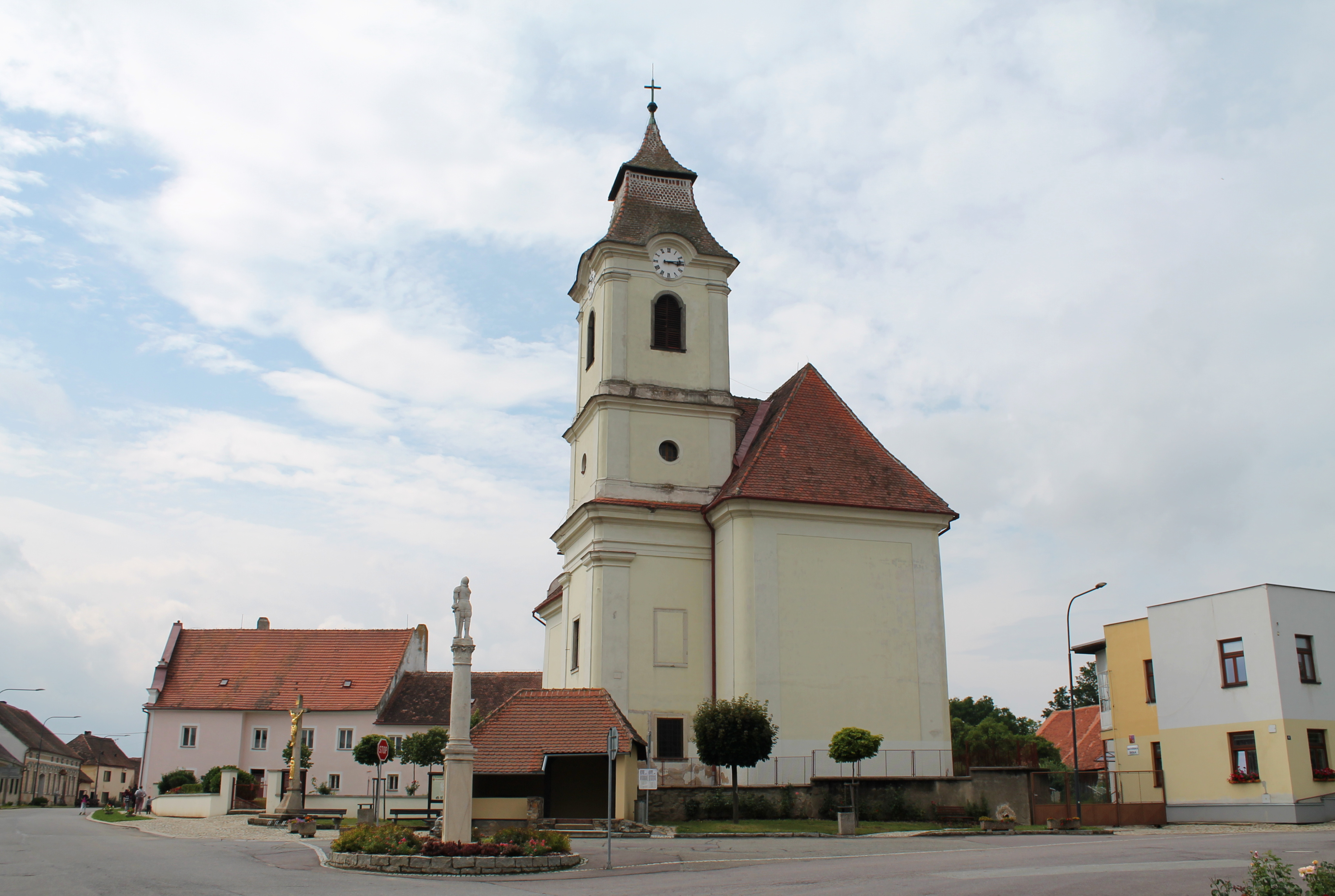 Church of Saint James the Greater, Vratěnín, Znojmo District, Czech Republic